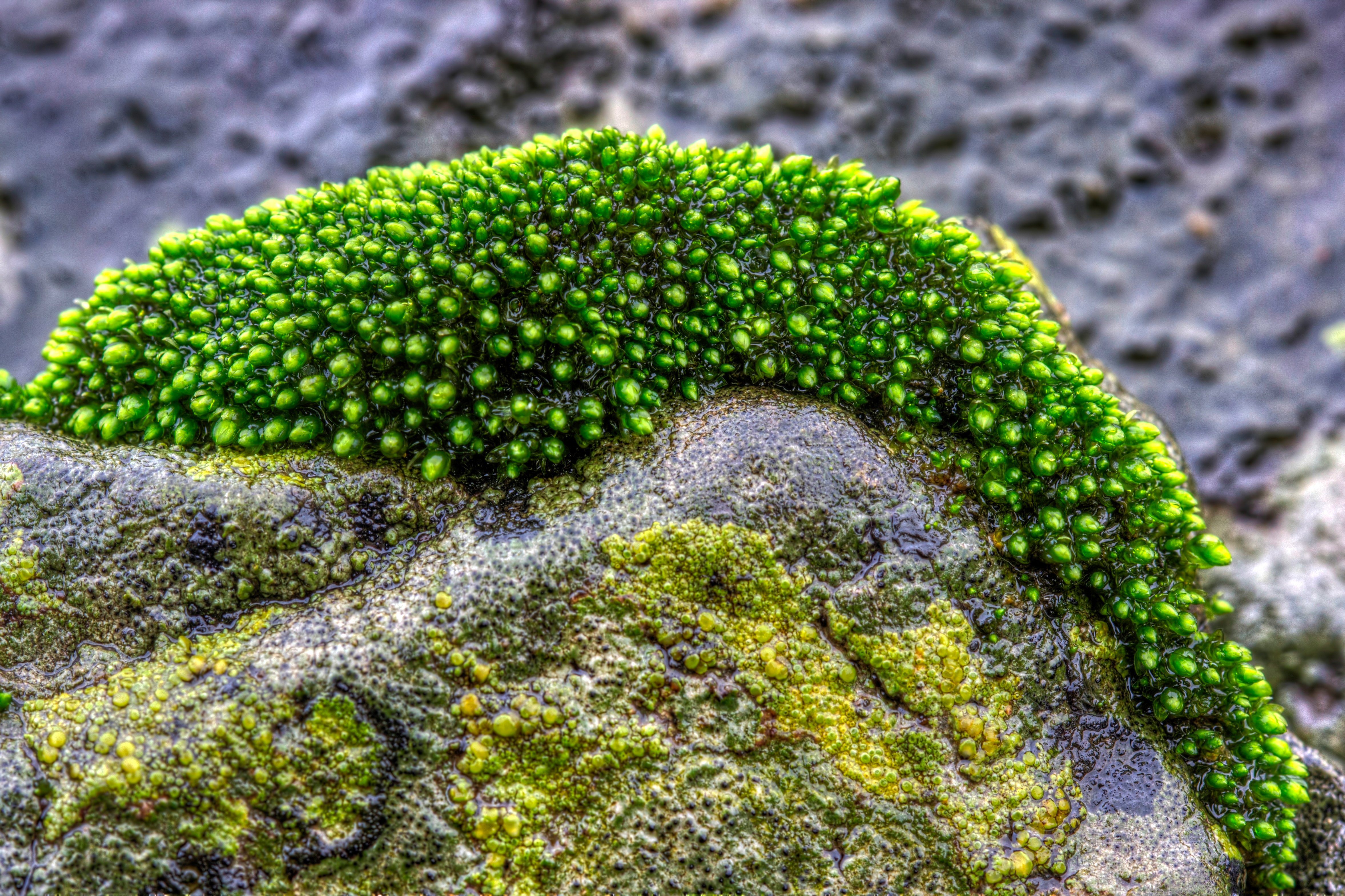 Gametophyte of Bryum gemmiparum